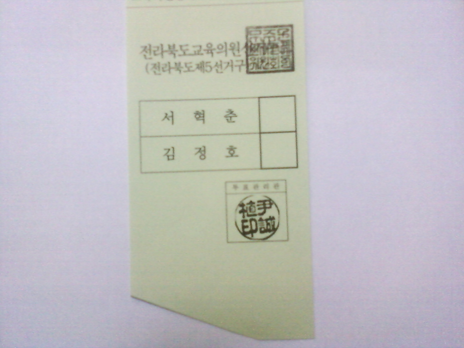 Korean 5th local election ballot paper - Jeollabuk-do (Gyoyuguiwon-5)